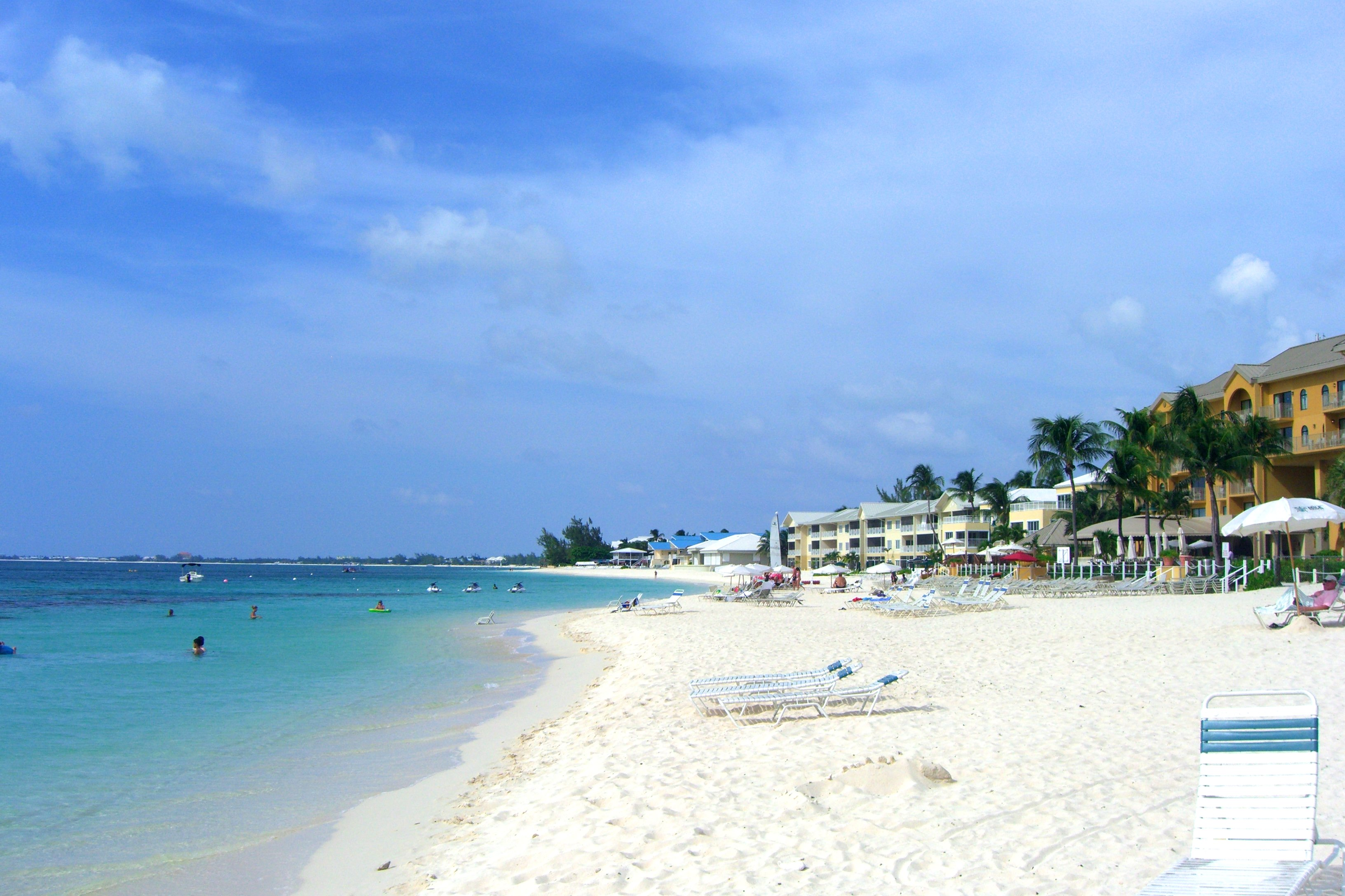 Resorts on Seven Mile Beach, Grand Cayman